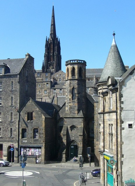 Cowgatehead from Candlemaker Row The church building in the foreground was the Free Church, Cowgate, built in 1861 and now used as a social welfare centre. The spire beyond belongs to the Assembly Hall, built in 1842-44 to house the General Assembly of the Church of Scotland. It became Tolbooth-St. John's (or the 'Highland Church' because of its Gaelic services) before its closure in 1979 and later conversion to an Edinburgh Festival information centre. It is now called 'the Hub'.